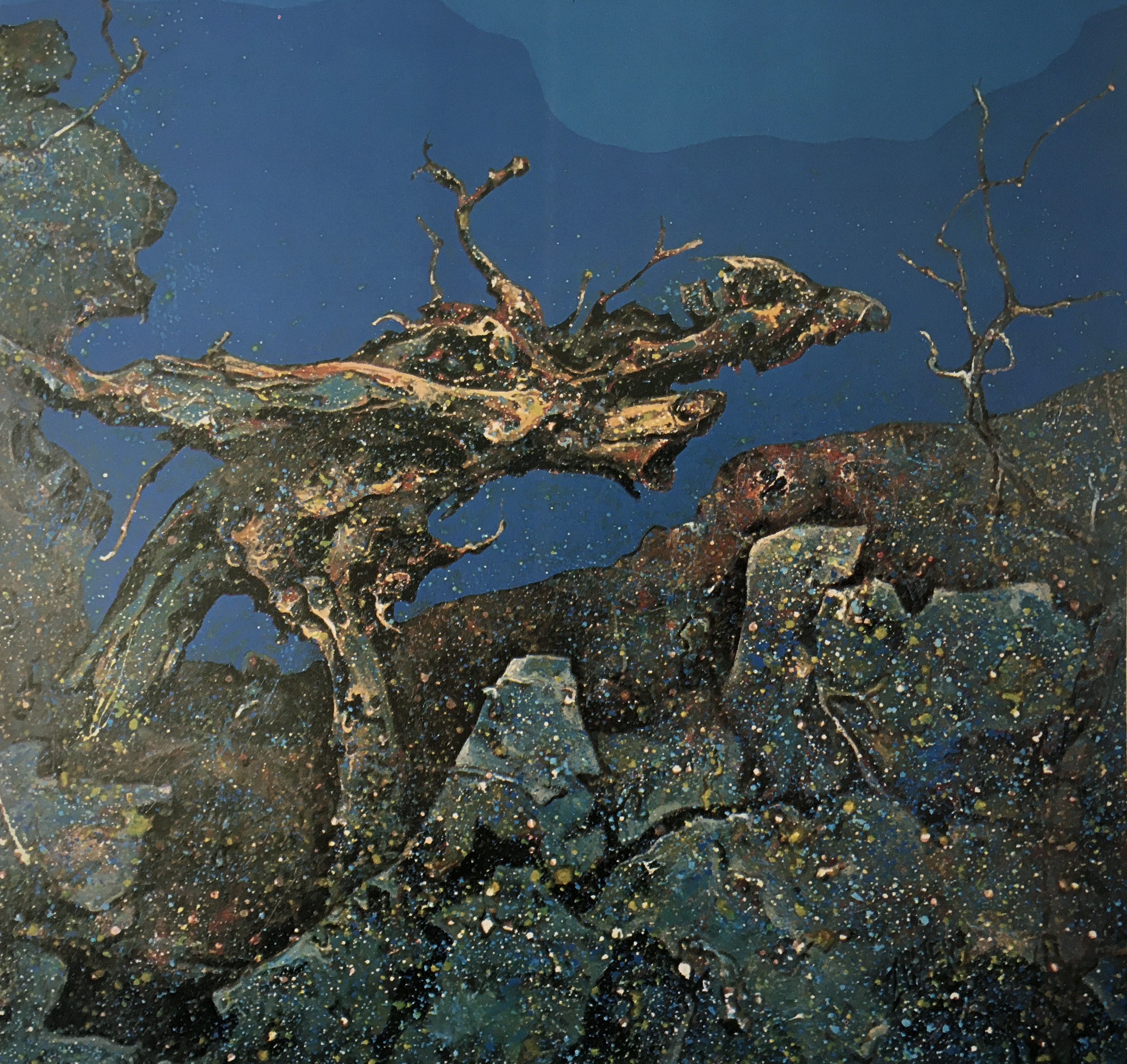 Blue Mountains rocks and wood